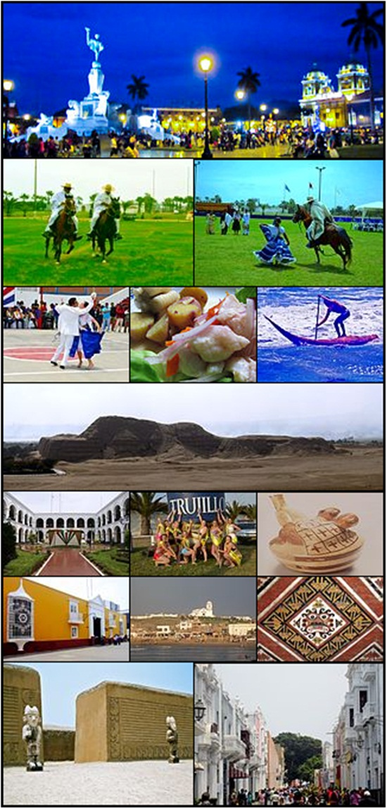 PhotomontageTrujillo